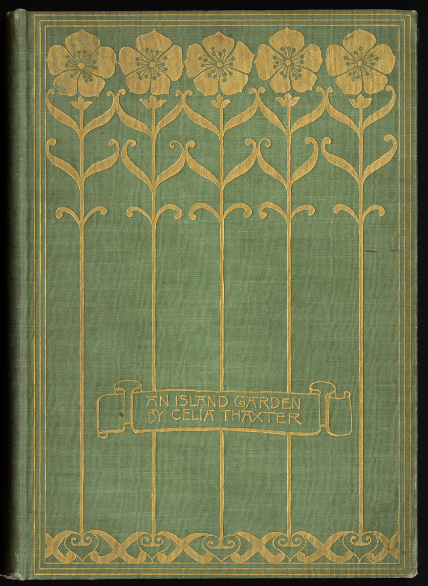 File name: 06_04_000083Title: THAXTER(1894) An island gardenDate issued: 1894Genre: Book coversNotes: Thaxter, Celia, 1835-1894 (Author)Collection: Sarah Wyman Whitman BindingsLocation: Boston Public Library, Special CollectionsRights: No known copyright restrictions.